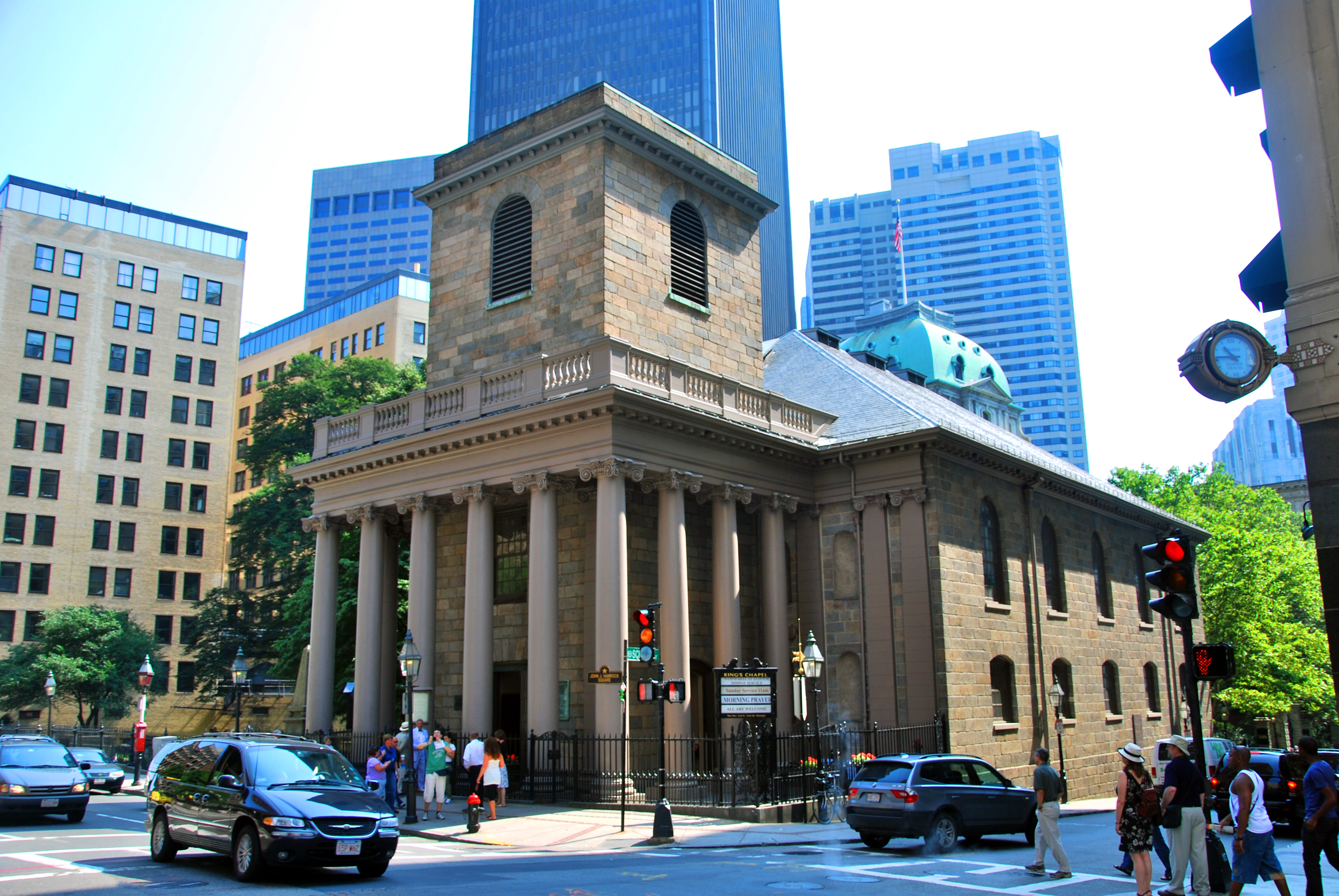 King's Chapel in 2009